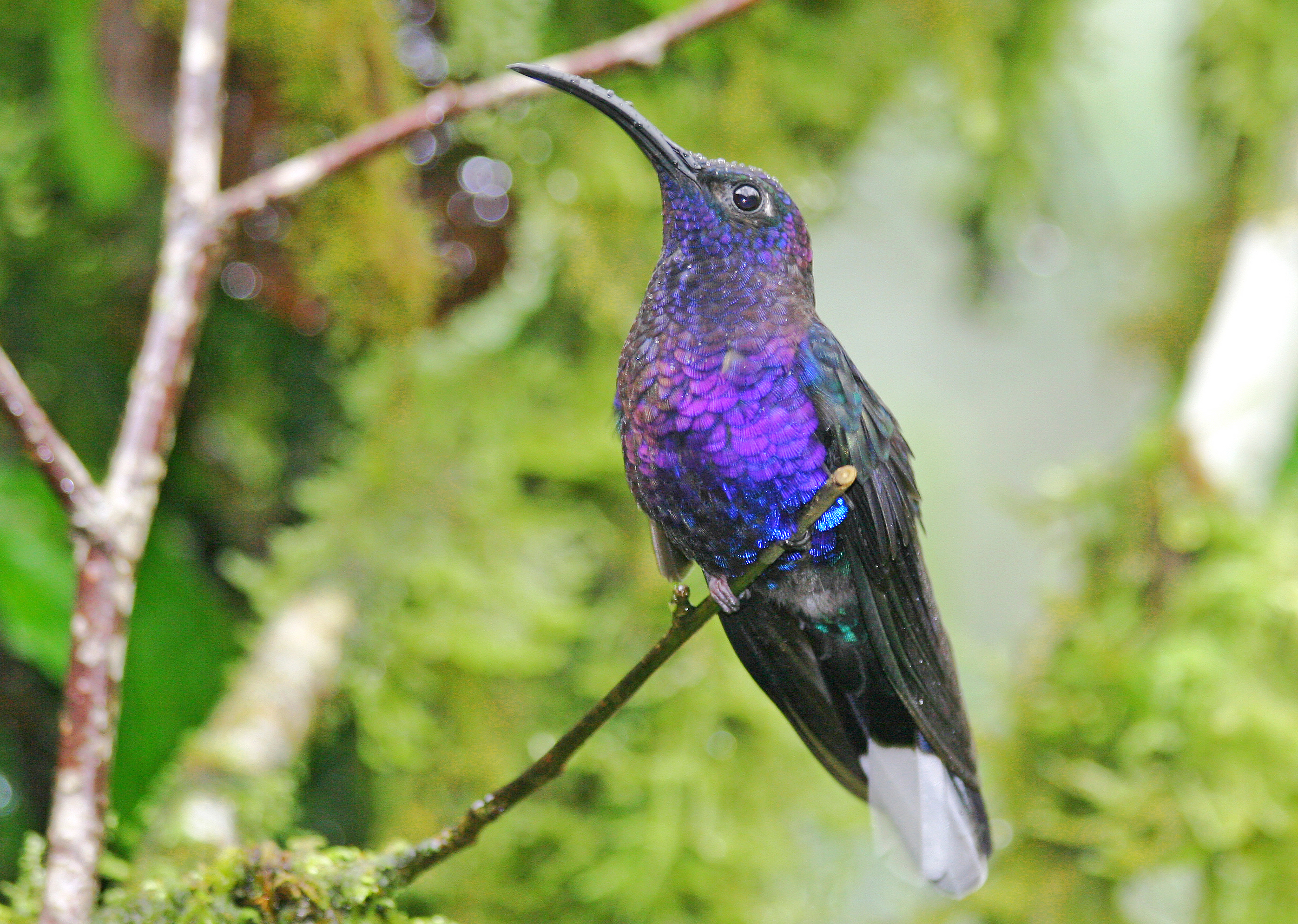 Taken in La Paz Waterfall Gardens, Costa Rica.